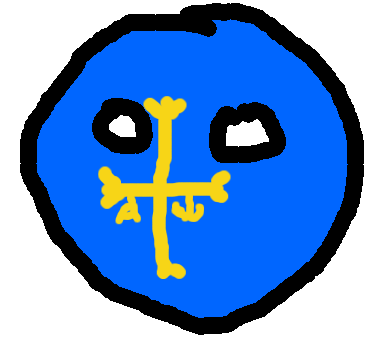 Polandball depiction of Asturias